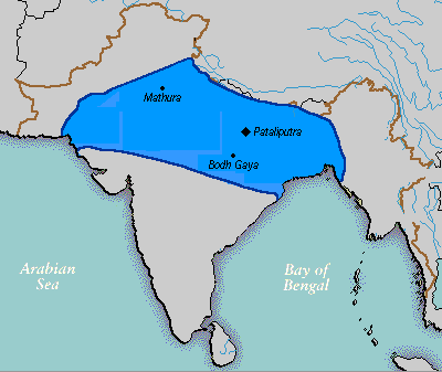 The Nanda Empire at its greatest extent under Dhana Nanda circa 323 BC.